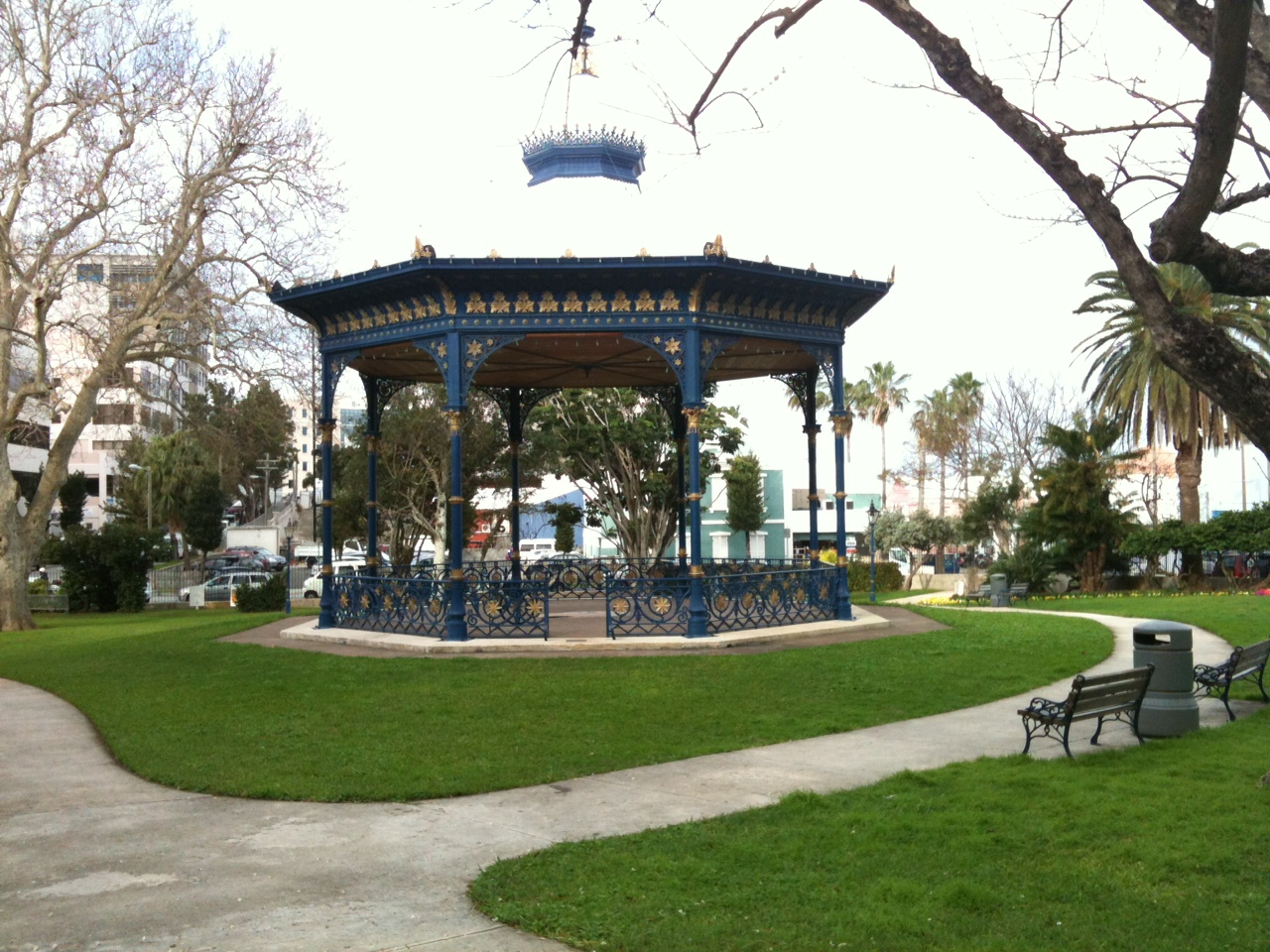 Looking west toward the bandstand pavilion in Victoria Park, Hamilton, Bermuda.